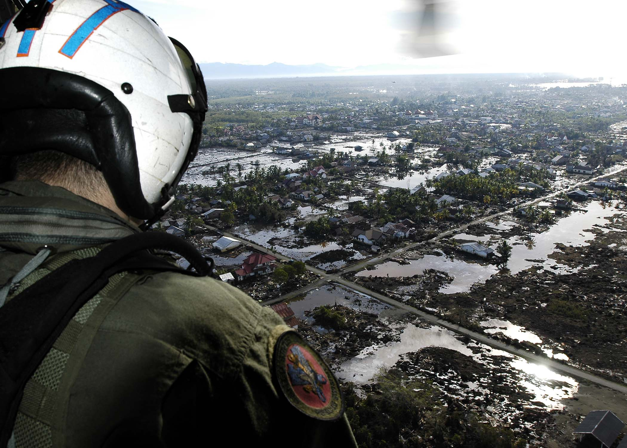 Meulaboh, Sumatra, Indonesia (Jan. 6, 2005) - Aviation Warfare Systems Operator 2nd Class Maxwell Bjerke of San Diego, Calif., surveys the damage to Meulaboh, Sumatra, Indonesia during a humanitarian aid flight in an SH-60F Seahawk helicopter. Helicopters assigned to Carrier Air Wing Two (CVW-2) and Sailors from Abraham Lincoln are supporting Operation Unified Assistance, the humanitarian operation effort in the wake of the Tsunami that struck South East Asia. The Abraham Lincoln Carrier Strike Group is currently operating in the Indian Ocean off the waters of Indonesia and Thailand. U.S. Navy photo by Photographer's Mate Airman Jordon R. Beesley (RELEASED)